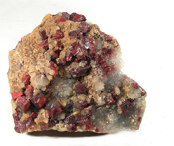 Cinnabar Locality: Sofiya Mine, Nikitovka Deposit, Novyy Donbass, Gorlovka, Donets'k Oblast' (Donetsk Oblast'), Ukraine (Locality at ) On a matrix of druzy white quartz, brick red, matte luster, penetration twins of cinnabar abound. The largest crystal reaches 1.5 cm across which is as big as they grow from this deposit. These are not the brightest cinnabars, and exhibit some signs of alteration perhaps. There is some damage and perhaps the piece should best be trimmed to a miniature in that regard, though I like the size and overall color myself in this case, especuially given the rarity of the material. I have not previously seen such a large example. 9.2 x 8 x 3.3 cm